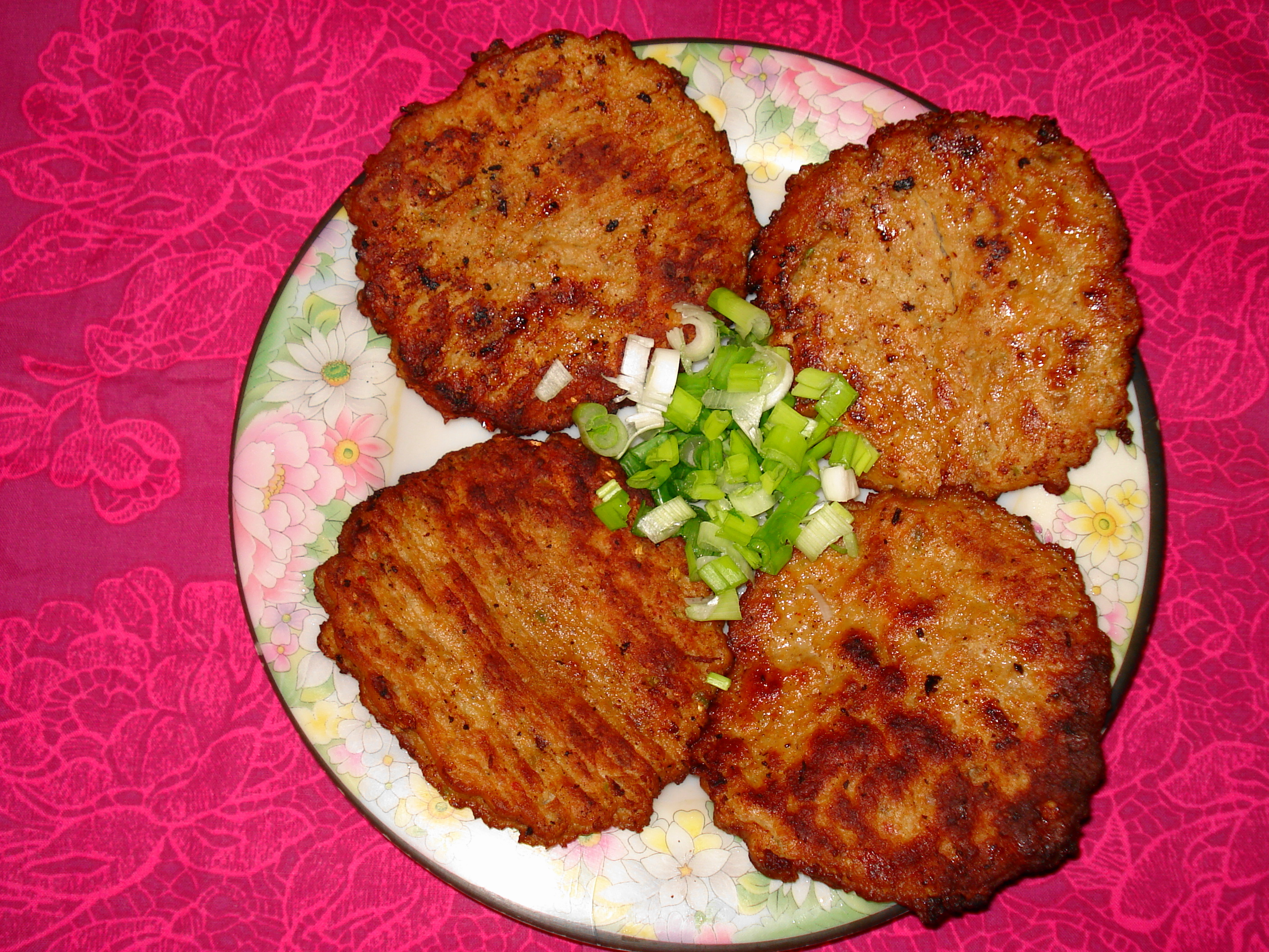 Chapli Kabab Is one of the most popular dish from NWFP, or pathan/pashtoon cuisine of Pakistan